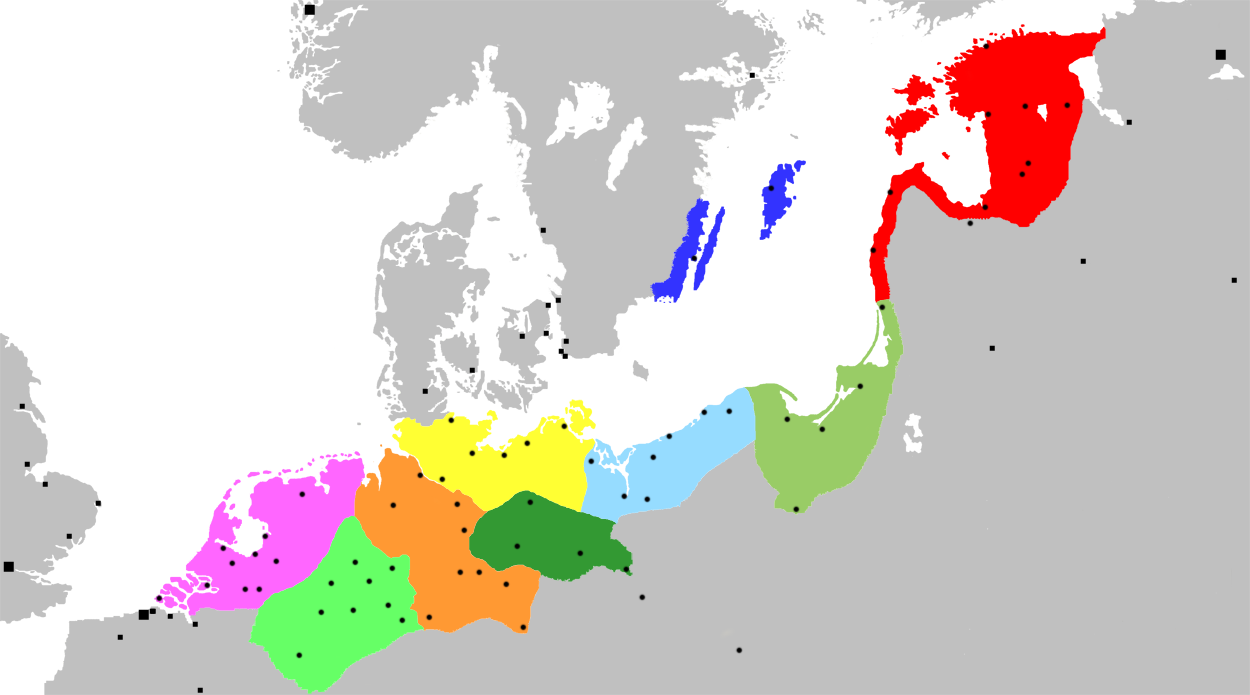 Map of the Hanseatic League, circa 1400, showing Circles, Kontore and principal Hanseatic cities Netherlands Circle Westphalian Circle Saxon Circle Wendish Circle Margravian Circle Pomeranian Circle Prussian Circle Livonian Circle Swedish Circle Squares indicate Kontore; dots indicate Hanseatic cities.